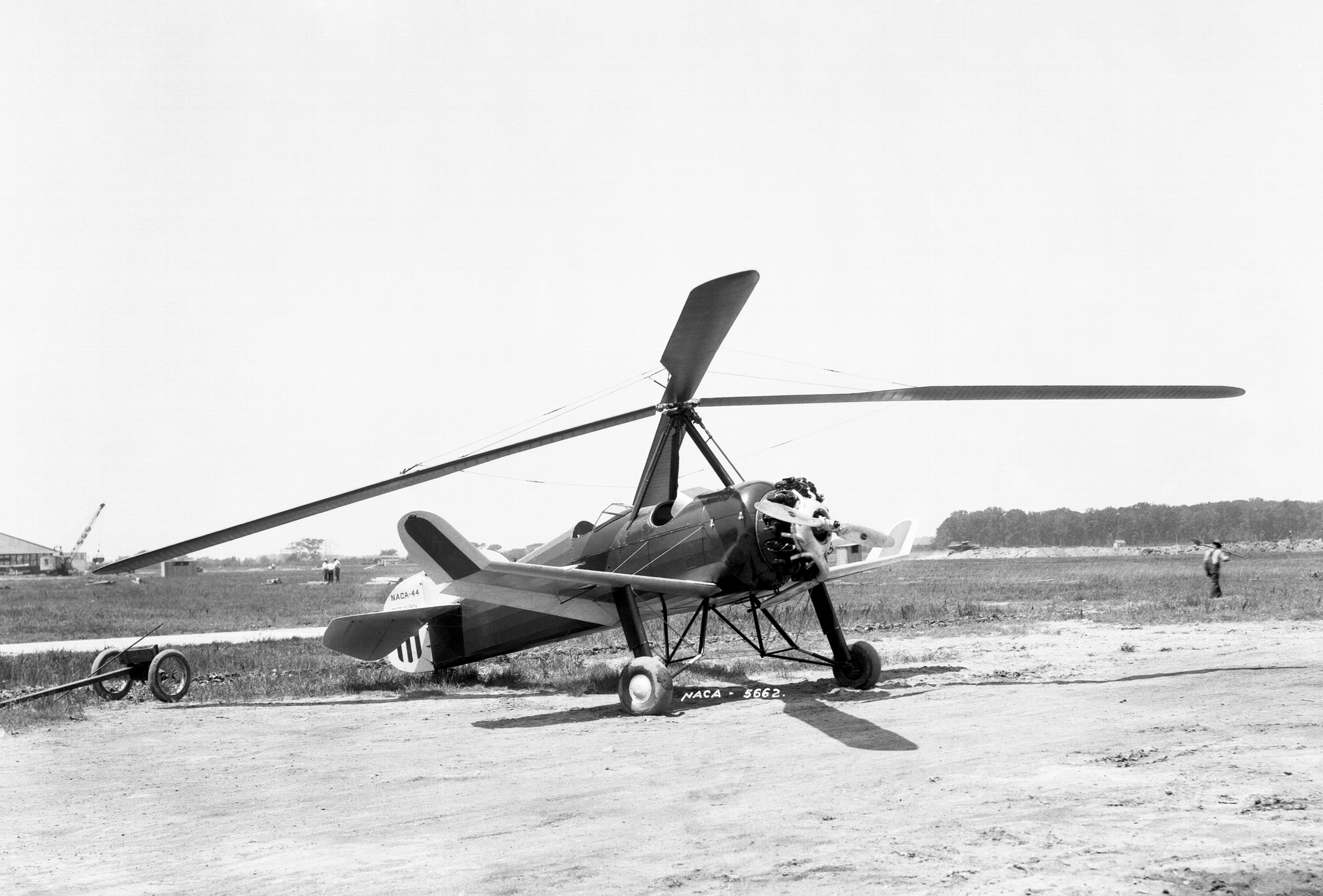 Pitcairn PCA-2 autogiro (NACA44), flown at Langley for the NACA investigation of an rotor systems.